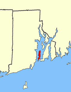 Conanicut Island, the second-largest island in Narragansett Bay. (Edited from Image:Aquidneck Island map.gif, subject to GDFL license.)